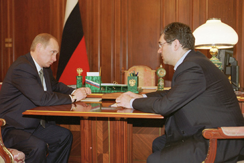 THE KREMLIN, MOSCOW. President Putin with Oleg Dobrodeyev, head of the All-Russian State Television and Radio Broadcasting Company (VGTRK).